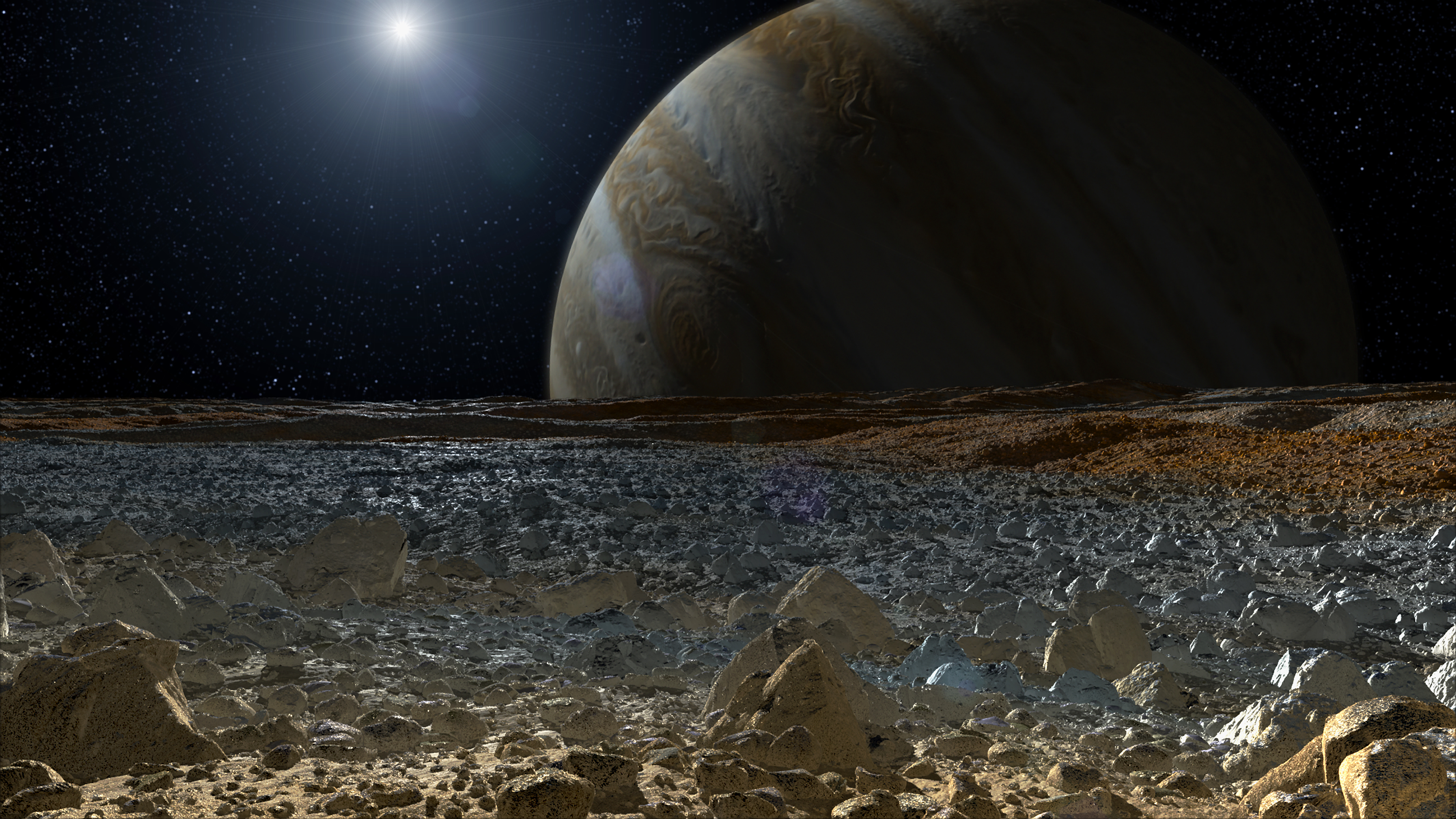 This artist's concept shows a simulated view from the surface of Jupiter's moon Europa. Europa's potentially rough, icy surface, tinged with reddish areas that scientists hope to learn more about, can be seen in the foreground. The giant planet Jupiter looms over the horizon.